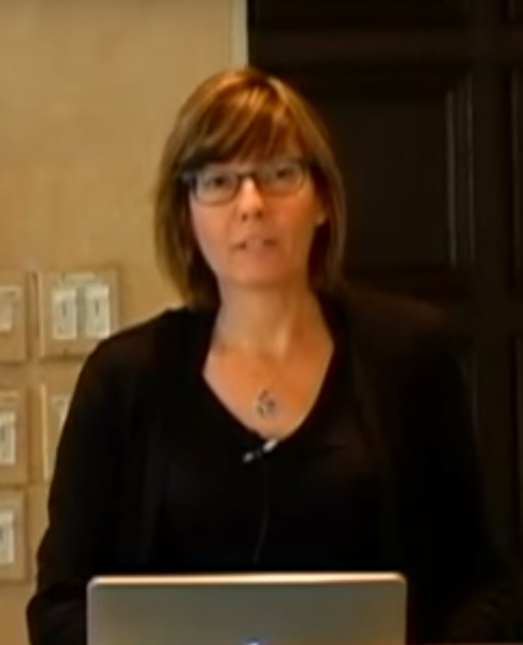 American bioethicist, author, and former professor Alice Dreger, giving an International Society for Intelligence Research Holden Award address in 2015. Screenshot from video by professor Timothy Bates, which is also the official ISIR video [1].